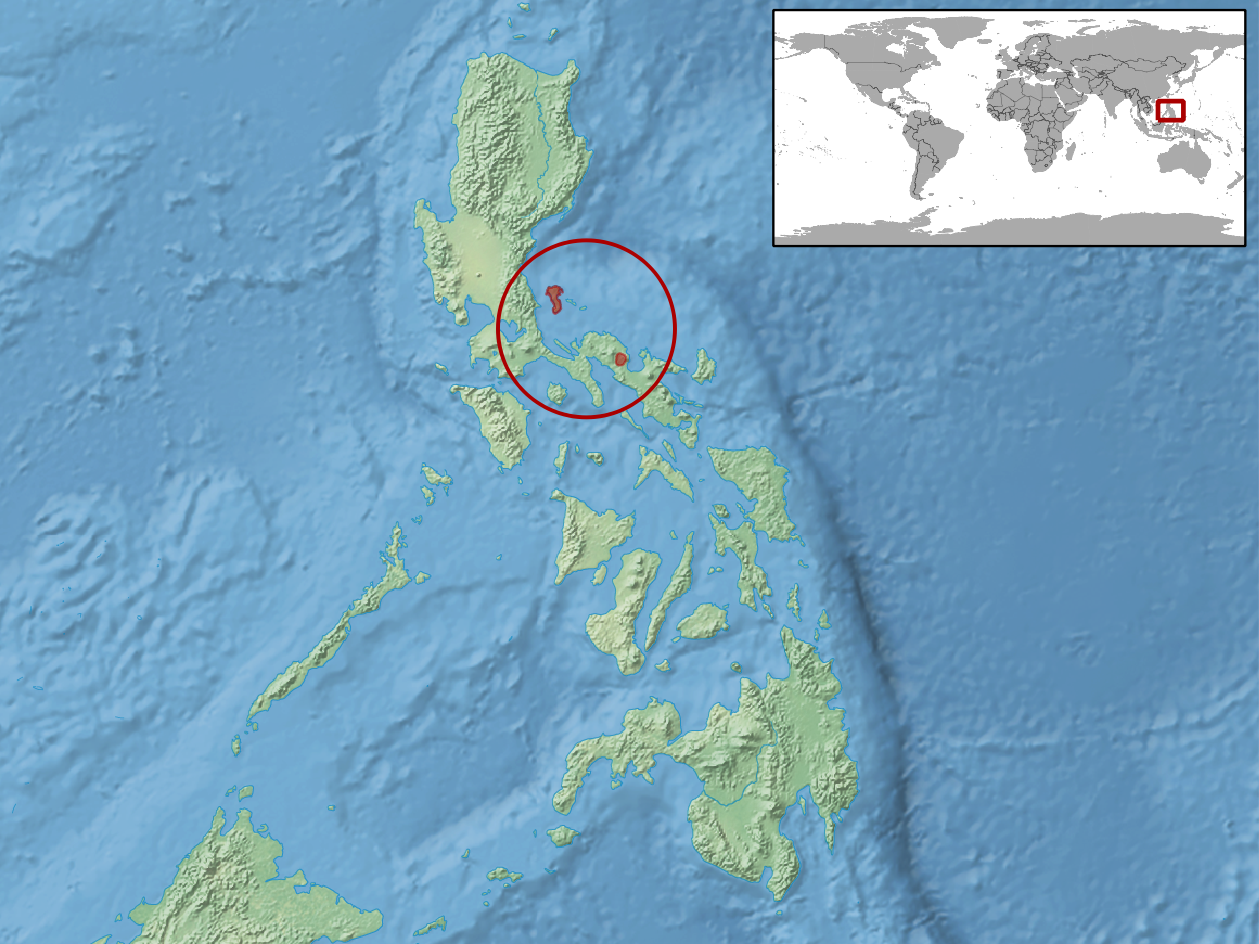 geographic distribution of Pseudogekko smaragdinus (Native: Philippines)